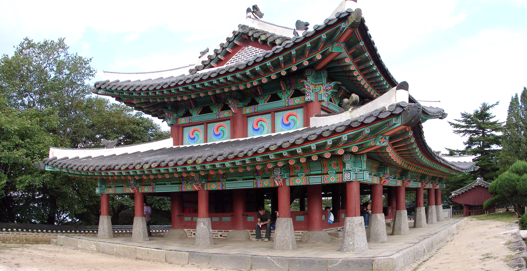 Sueojangdae inside Namhan Sanseong